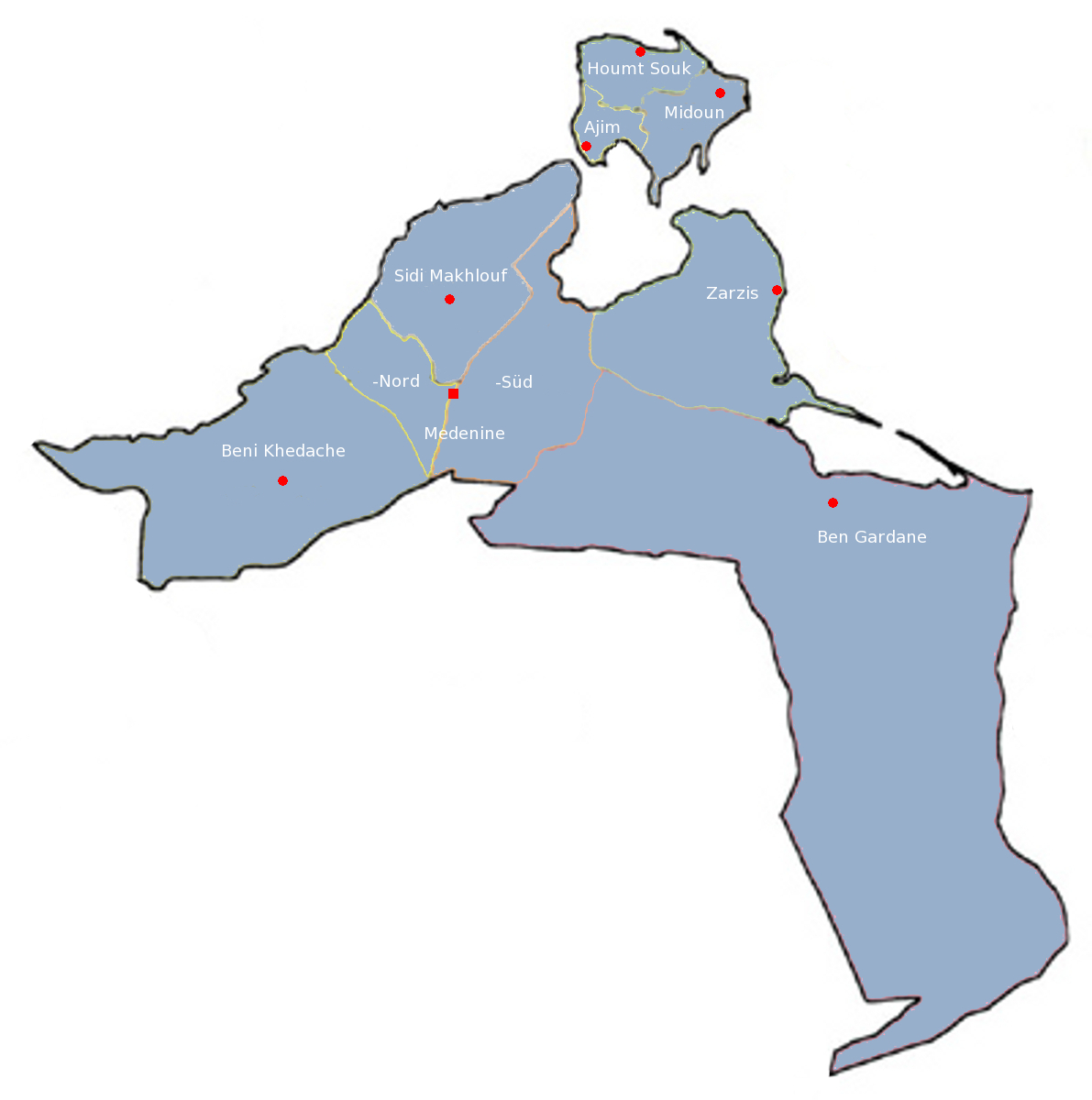 The administrative subdivision of the Medenine Governorate